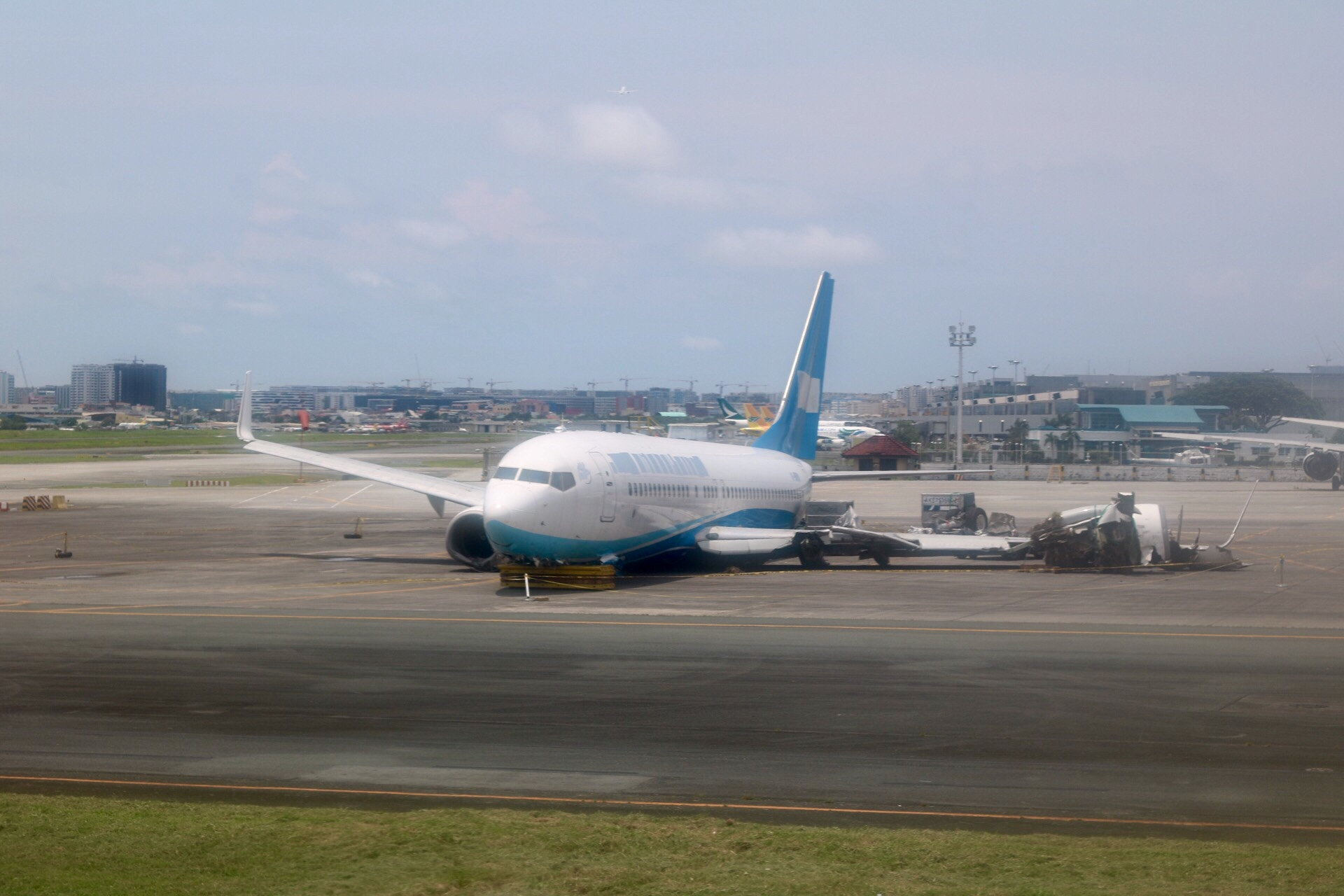 Debris of XiamenAir B-5498 at Ninoy Aquino International Airport